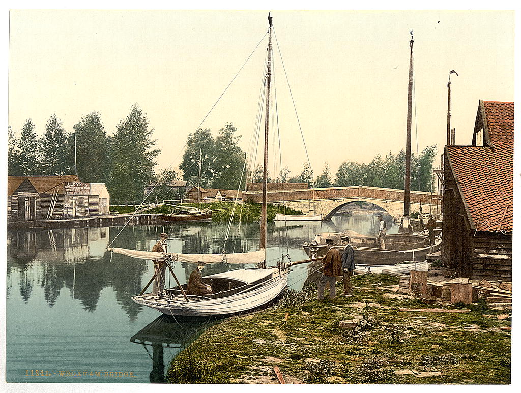 [Bridge, Wroxham, England] [between ca. 1890 and ca. 1900]. 1 photomechanical print : photochrom, color. Notes: Title from the Detroit Publishing Co., Catalogue J--foreign section, Detroit, Mich. : Detroit Publishing Company, 1905. Print no. "11241". Forms part of: Views of the British Isles, in the Photochrom print collection. Subjects: England--Wroxham. Format: Photochrom prints--Color--1890-1900. Repository: Library of Congress, Prints and Photographs Division, Washington, D.C. 20540 USA, Part Of: Views of the British Isles (DLC) 2002696059 More information about the Photochrom Print Collection is available at Higher resolution image is available (Persistent URL): Call Number: LOT 13415, no. 1037 [item]